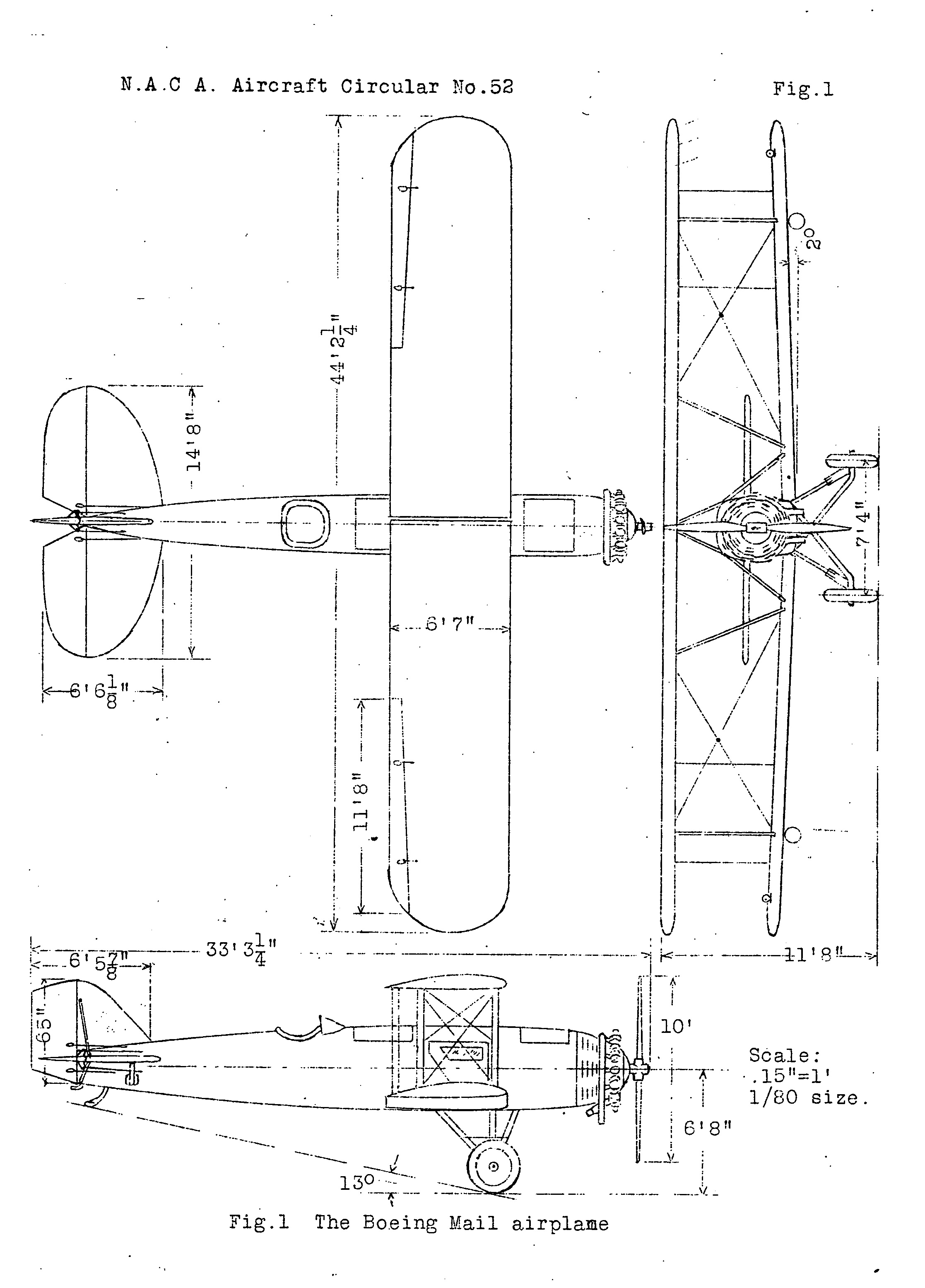 Boeing 40 3-view drawing from NACA Aircraft Circular 52